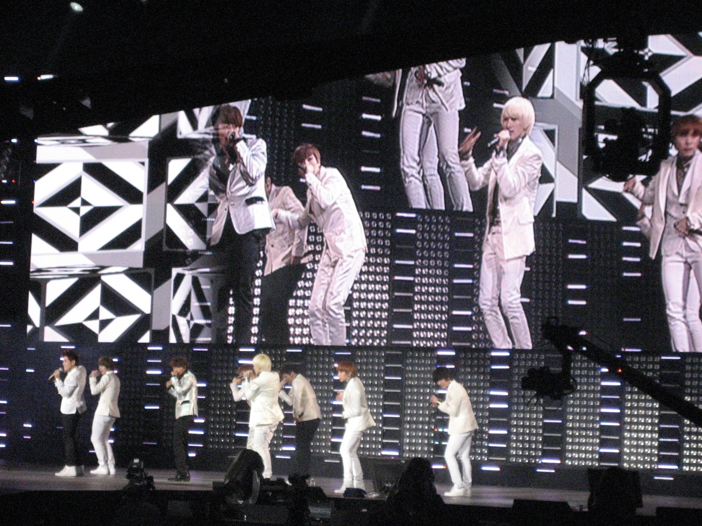 Super Junior performs "Mr. Simple" at SMTown Live in New York, 10/23/11, at Madison Square Garden, New York City.